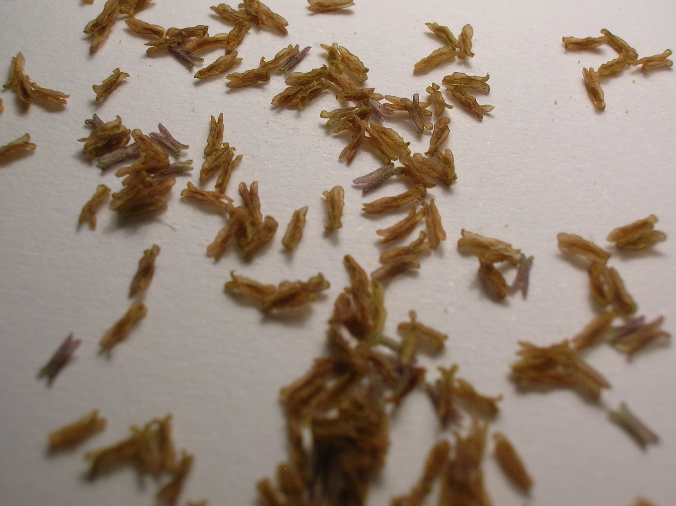 Anthers from the Meadow Foxtail Alopecurus pratensis